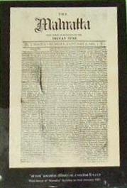 Editorial of Maratha Newspaper of Tilak